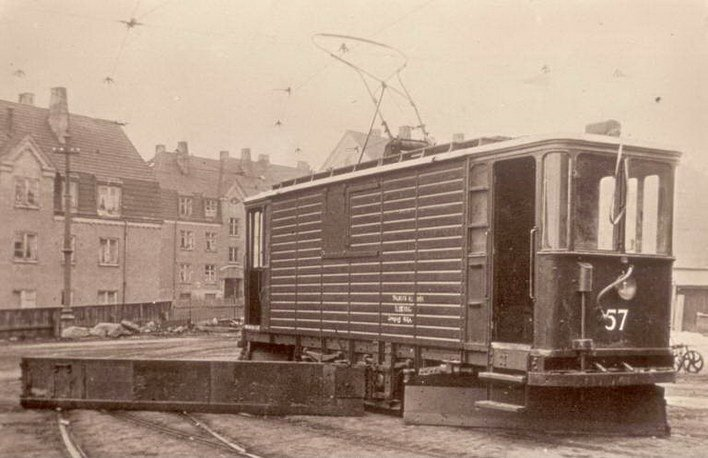 KSS Class S tram converted to snow plow